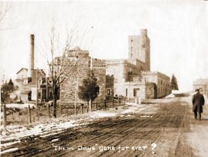 The Upper Peninsula Brewing Company complex on Meeske Street in Marquette in 1915, a year before it closed due to local Prohibition laws.